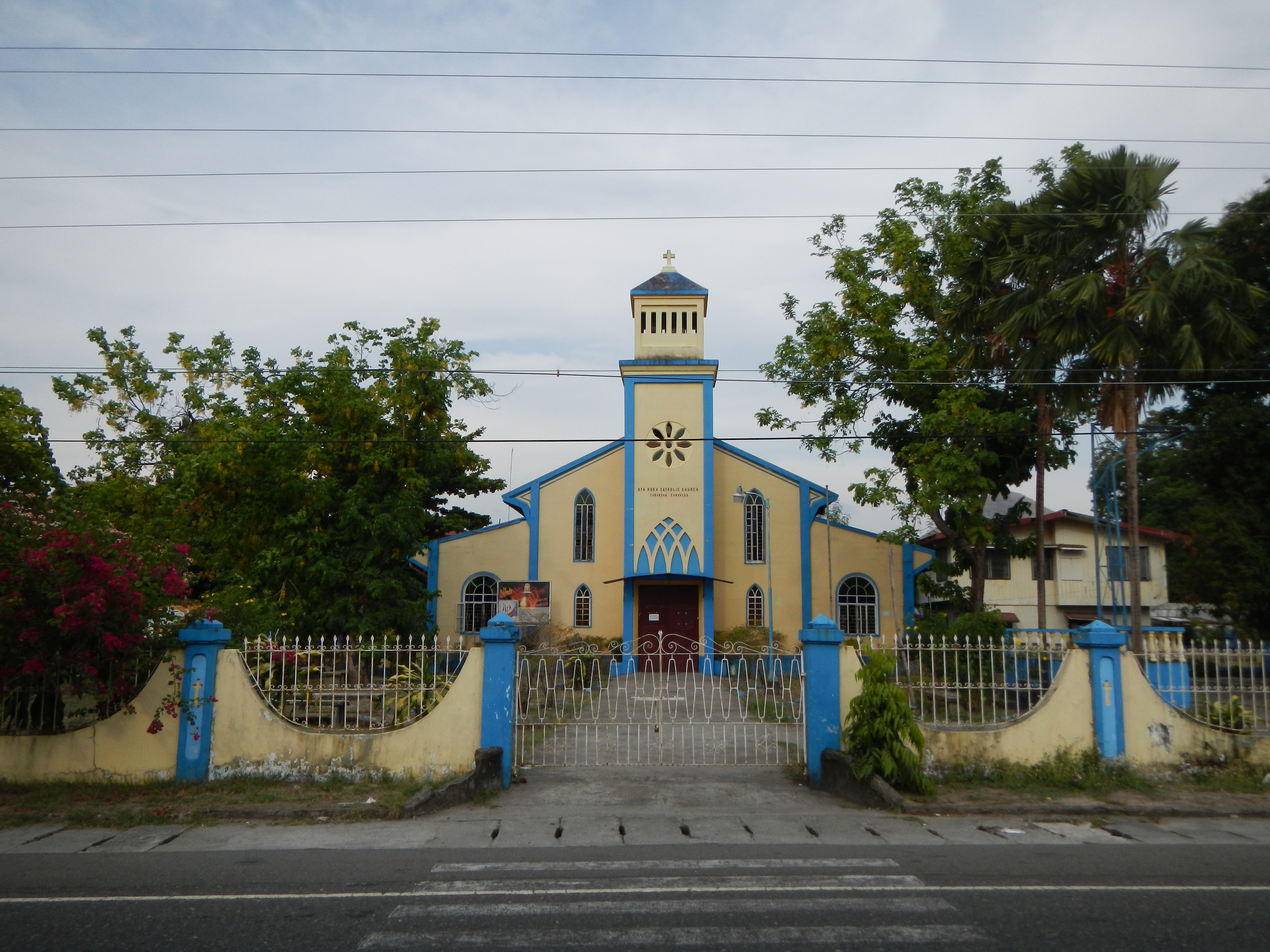 1856 Saint Rose of Lima Parish Church of Cabangan --- National Rd, Cabangan, Zambales[1] [2] [3] (F-1856) Santa Rosa de Lima Parish Church (Cabangan, Zambales)[4][5][6]Parish of St. Rose of Lima (F-1856), Cabangan 2203 Zambales Titular: St. Rose of Lima, Aug. 23 Administrator: Fr. Felix P. Labios Jr. San Sebastian Vicariate Vicar Forane: Fr. Daniel O. Presto[7] It belongs to the Roman Catholic Diocese of Iba[8] [9]Population: 15,323; Catholics: 10,062 Titular: St. Rose of Lima, August 23 Parish Priest: Rev. Fr. Teodoro F. Camat Southern Vicariate Vicar Forane: Rev. Fr. Audencio Mozo, Jr.